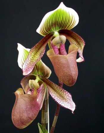 Paphiopedilum